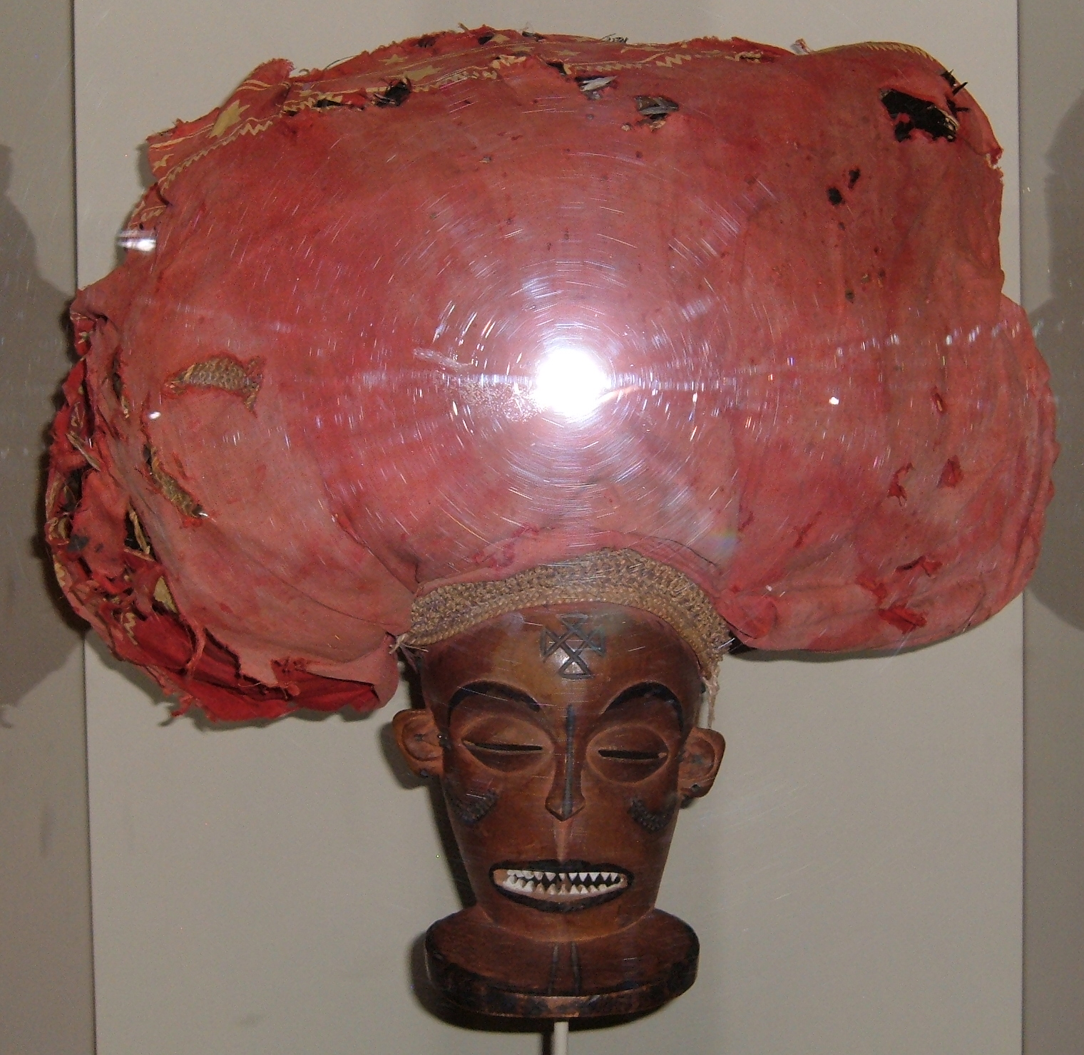 A 20th century Chokwe mask (Chihongo) on display at the Iris & B. Gerald Cantor Center for Visual Arts on the Stanford University campus in Stanford, California. 2003.20